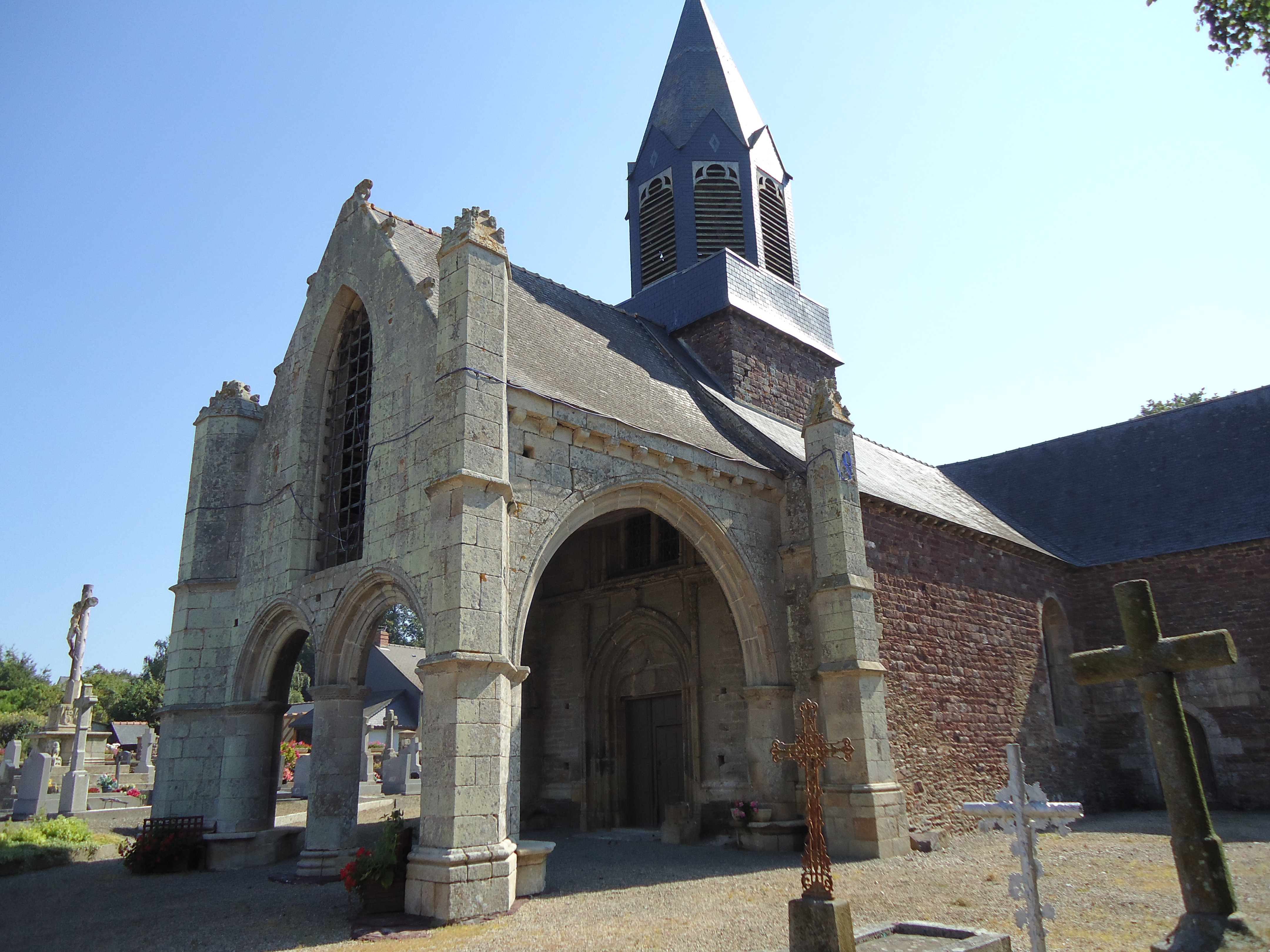 Churh of La Nouaye